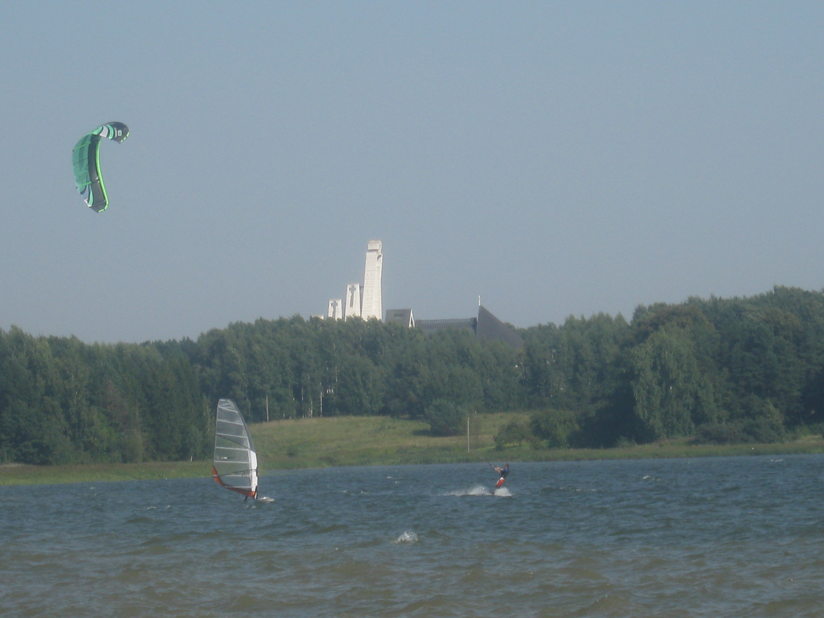 Elektrėnai, Lithuania